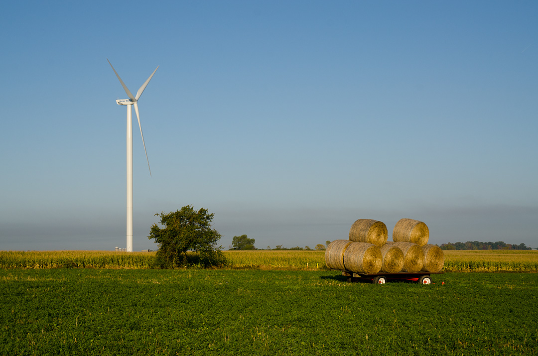 Shirley Wind Farm - Green Bay, Wisconsin.